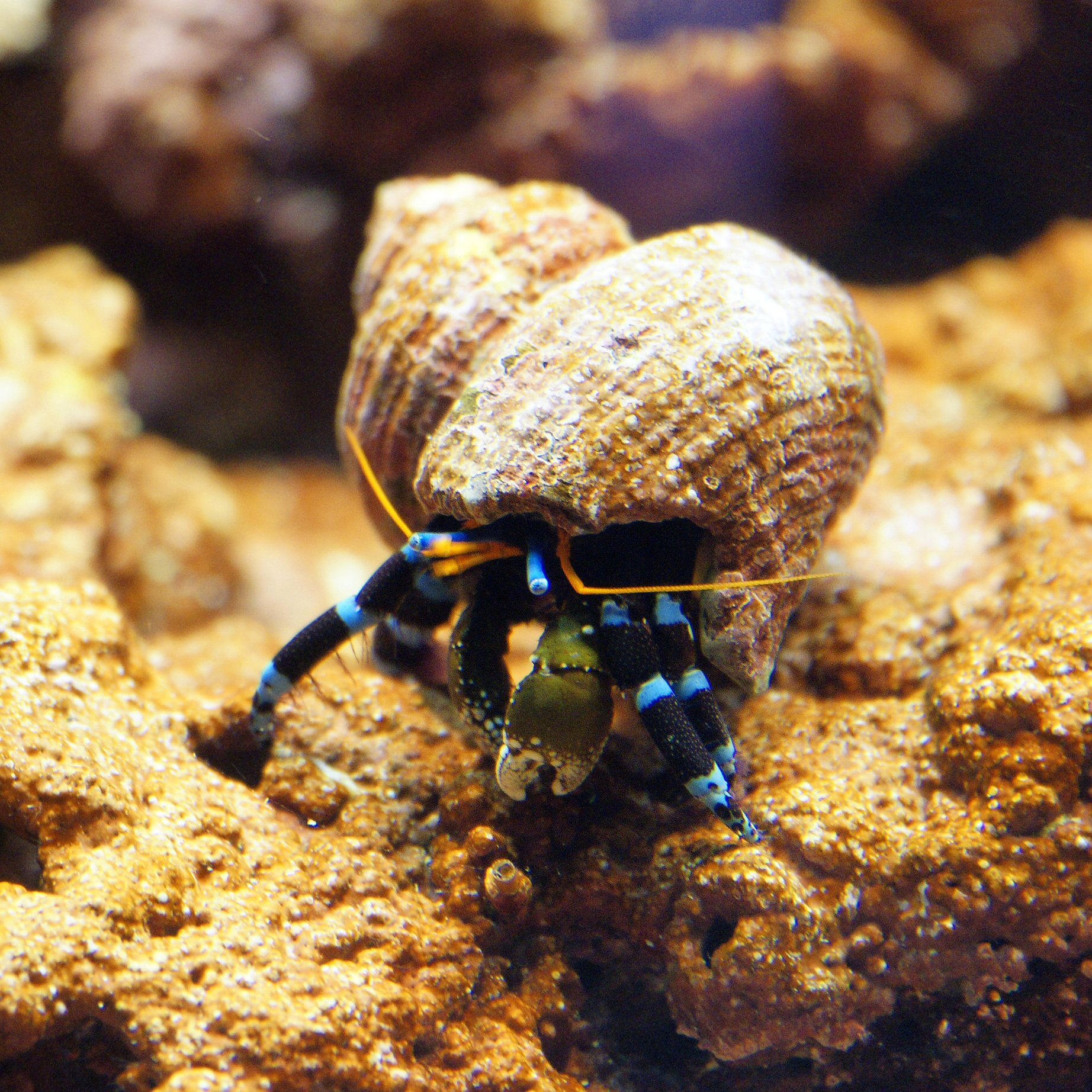 Electric Blue Hermit Crab